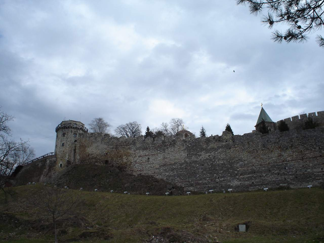 Medieval ramparts with Jakshics tower,Belgrade fortress.